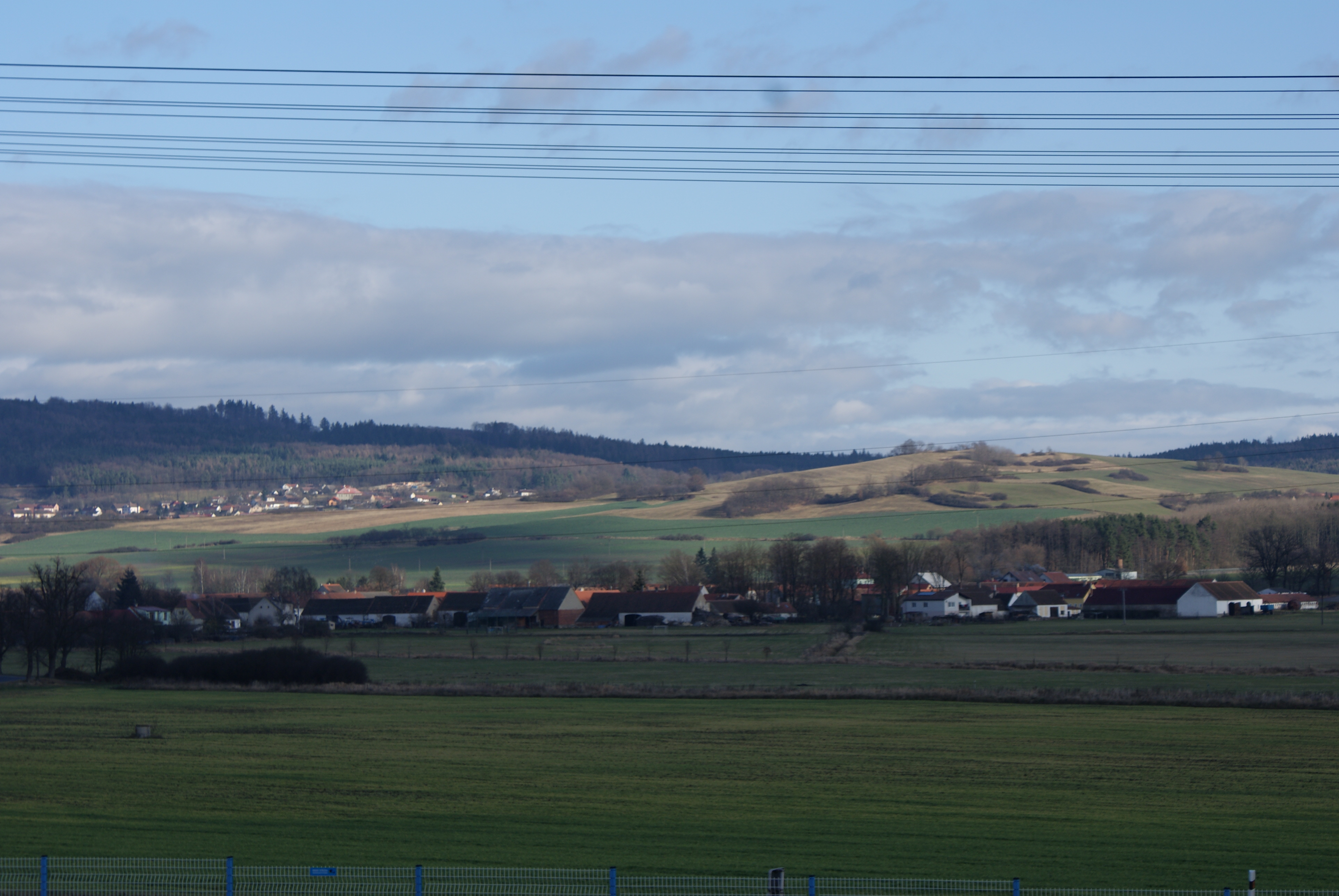 Žďár, a village near Protivín, CZE, seen from a distance.